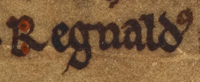 An excerpt from folio 36r of British Library MS Cotton Julius A VII (the Chronicle of Mann). The excerpt reads in Latin "Regnaldus". The excerpt refers to Rǫgnvaldr Haraldsson (fl. 1053).